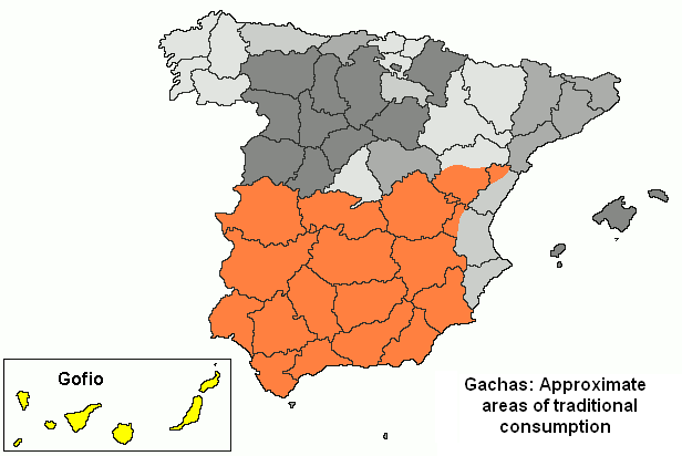 map of gachas and gofio consumption in Spain